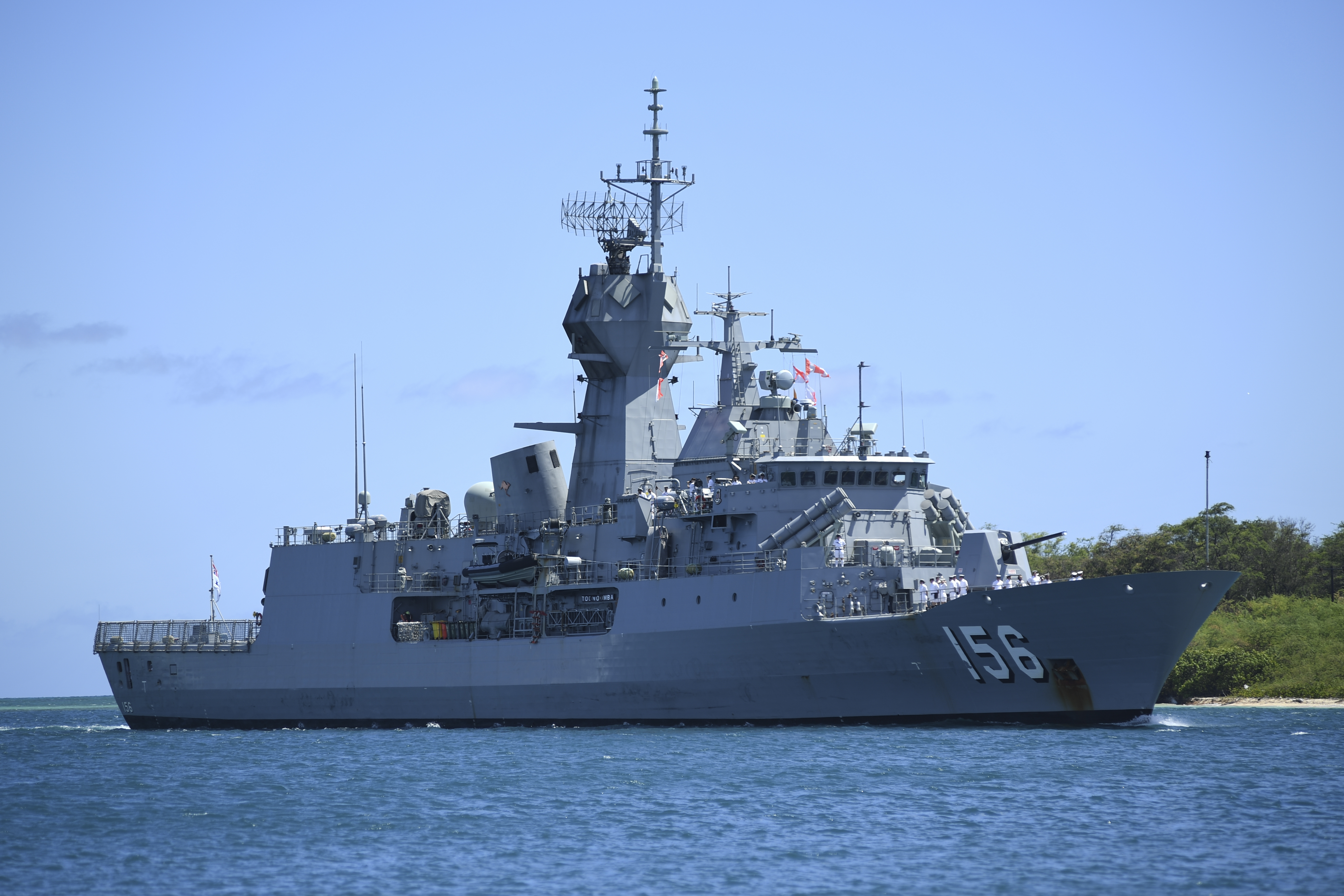 180625-N-KR702-0074 PEARL HARBOR (June 25, 2018) Royal Australian Navy frigate HMAS Toowoomba (FFH 156) arrives at Joint Base Pearl Harbor-Hickam in preparation for Rim of the Pacific (RIMPAC) exercise. Twenty-six nations, more than 45 ships and submarines, about 200 aircraft and 25,000 personnel are participating in RIMPAC from June 27 to Aug. 2 in and around the Hawaiian Islands and Southern California. The world’s largest international maritime exercise, RIMPAC provides a unique training opportunity while fostering and sustaining cooperative relationships among participants critical to ensuring the safety of sea lanes and security of the world’s oceans. RIMPAC 2018 is the 26th exercise in the series that began in 1971. (U.S. Navy photo by Mass Communication Specialist 1st Class Holly L. Herline)